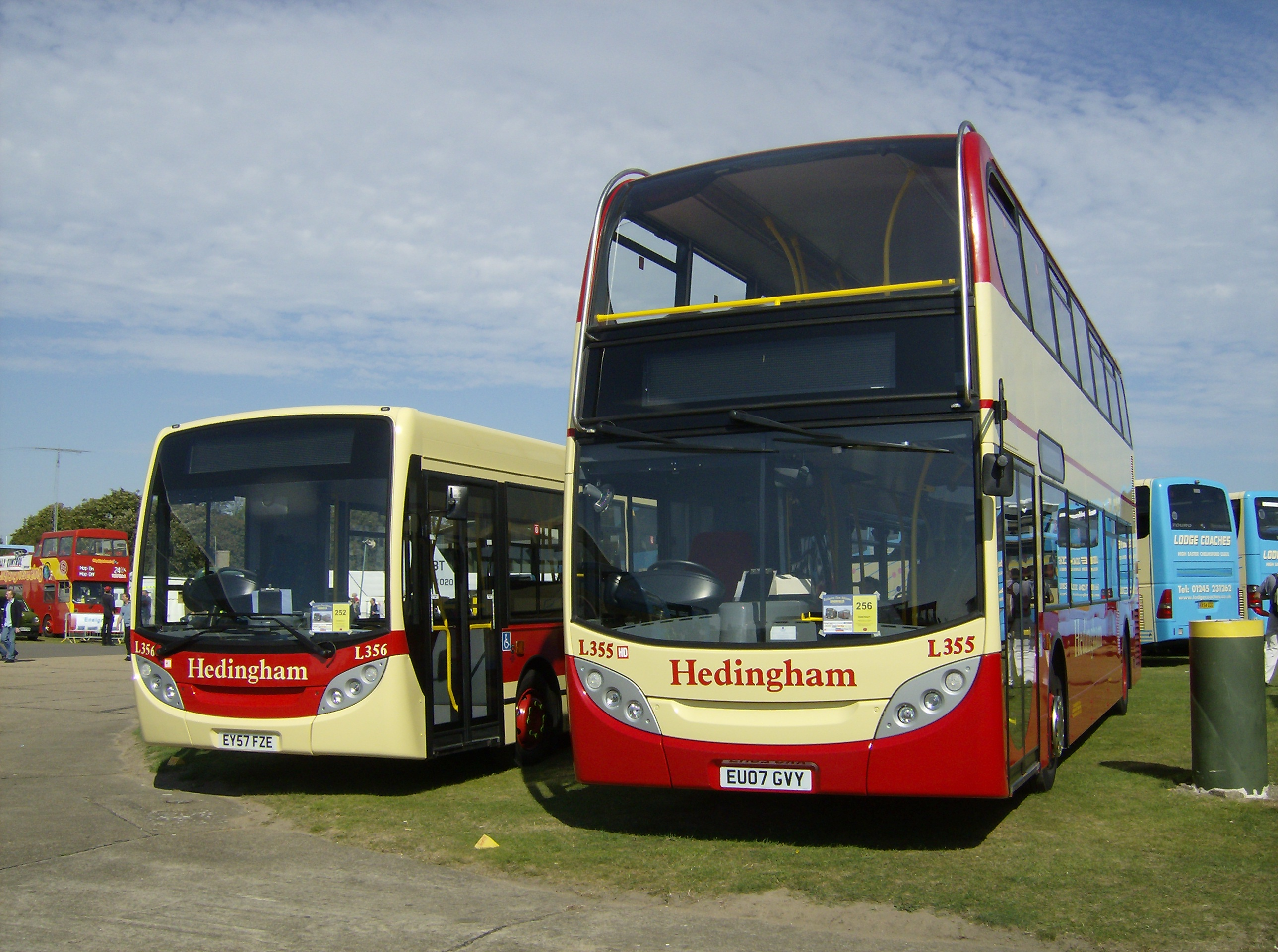 Two Enviros of Hedingham Omnibuses at Showbus 2007.